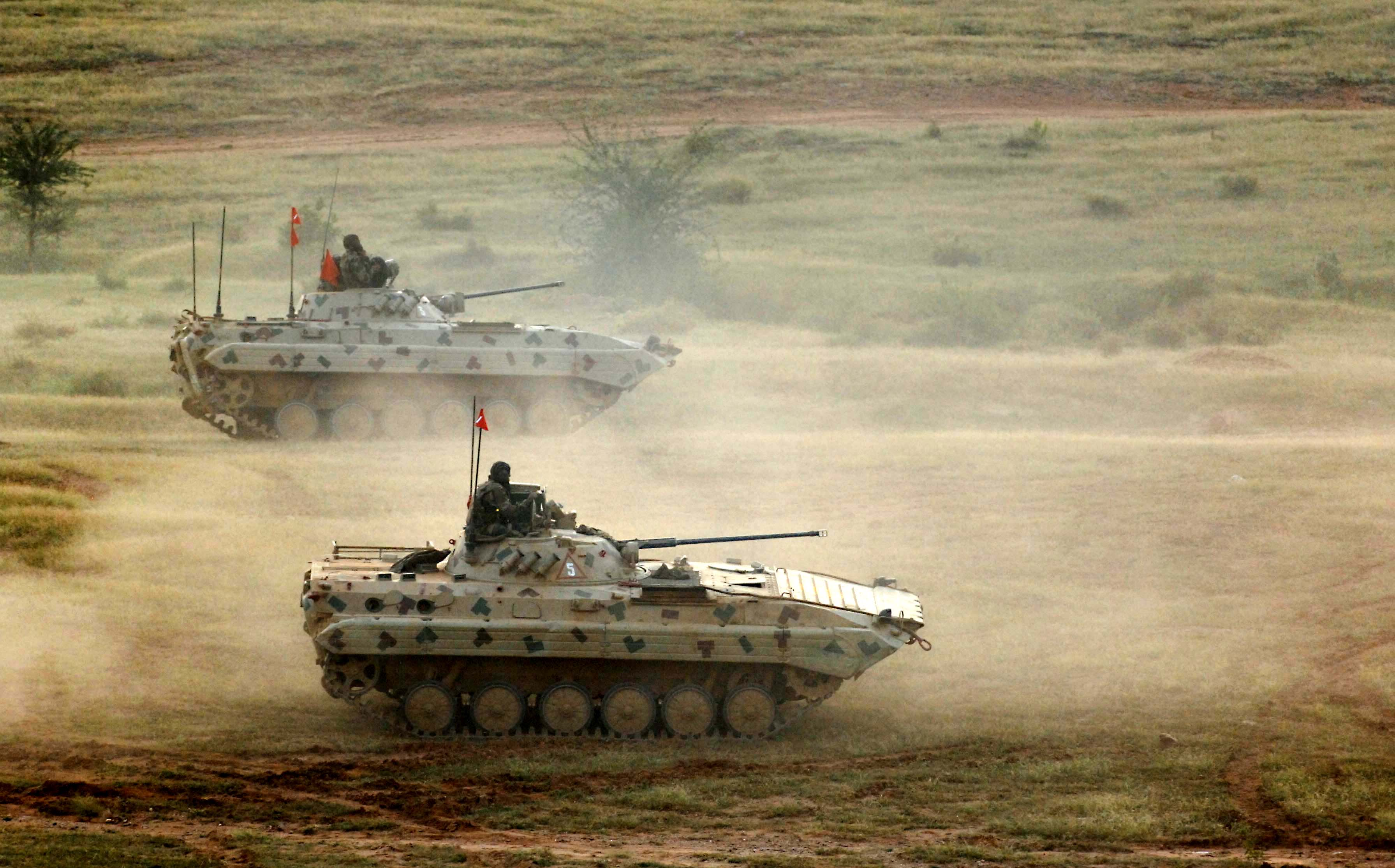 Indian Army Infantry Combat Vehicles move onto the firing range at Camp Bundela, India Oct. 26, 2009. Soldiers from the 2nd Squadron, 14th Cavalry Regiment, based out of Hawaii traveled with 17 of their Strykers to India for two weeks to train with the Indian army.